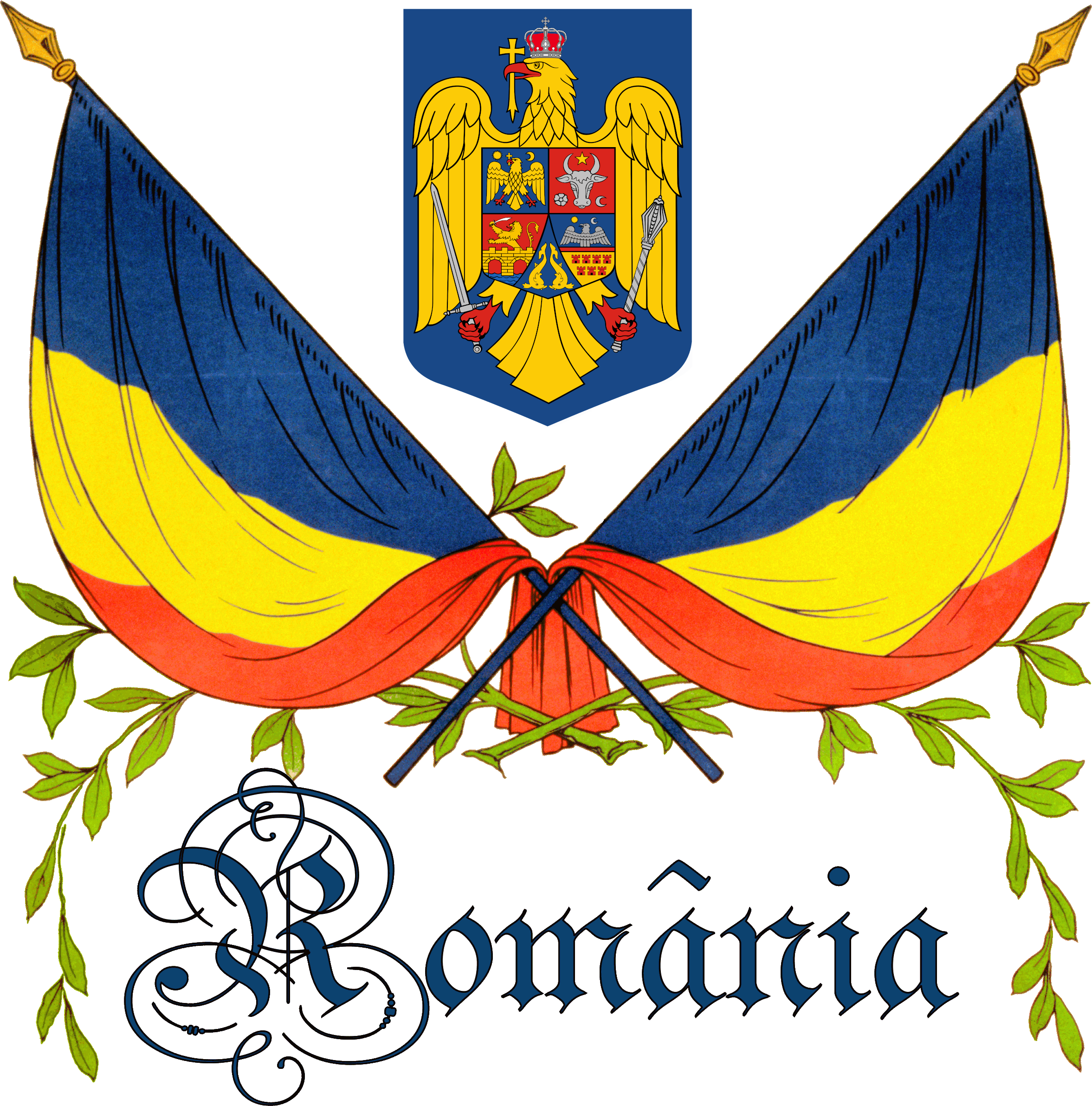 Flags and coat of arms of Romania.